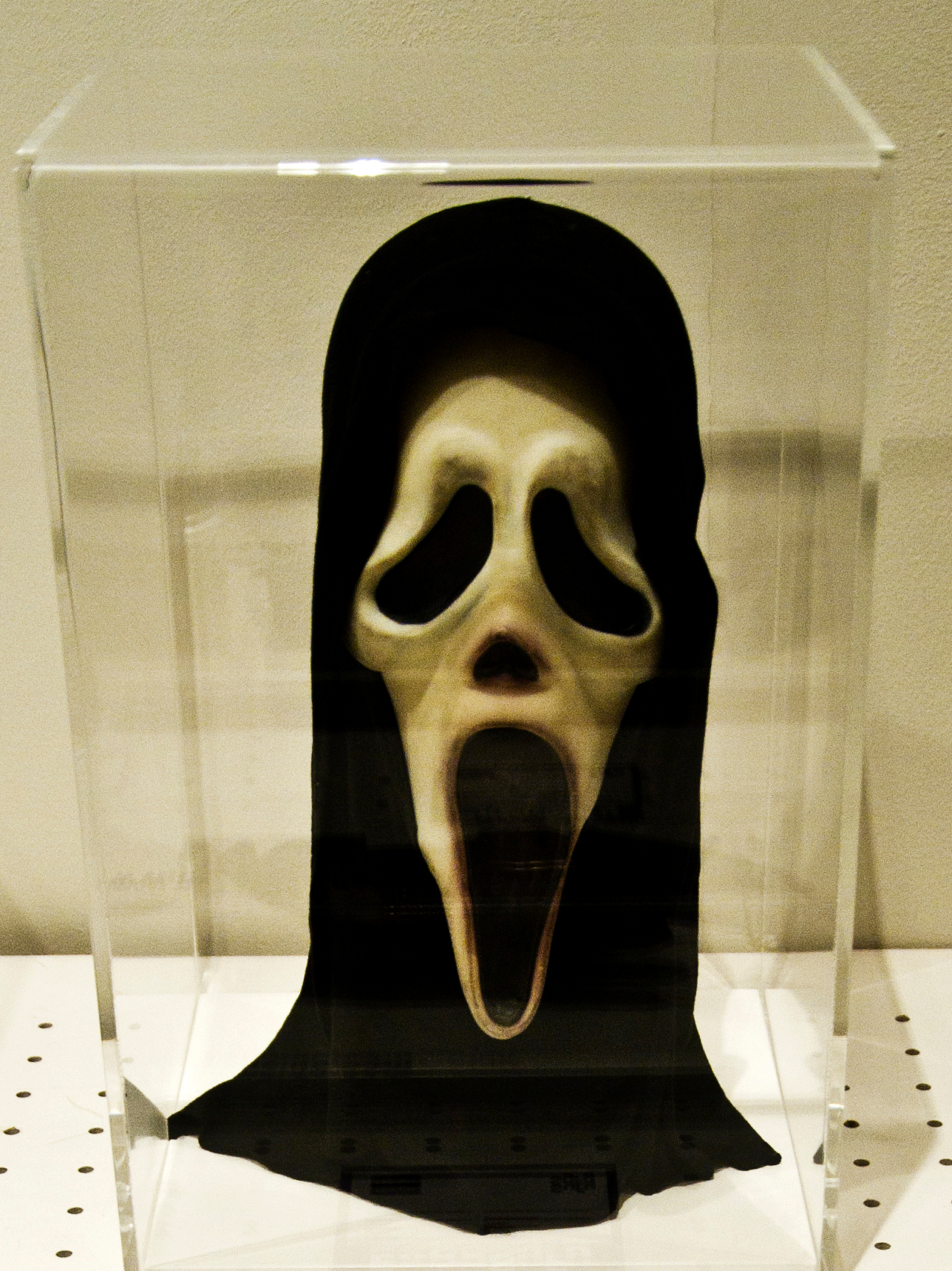 Film props displayed at ExpoSYFY, San Sebastián, Spain. On the background: original Ghostface mask from the 1996 film Scream. source On the background: original Freddy Krueger spoon glove from the 1989 film A Nightmare on Elm Street 5: The Dream Child. source